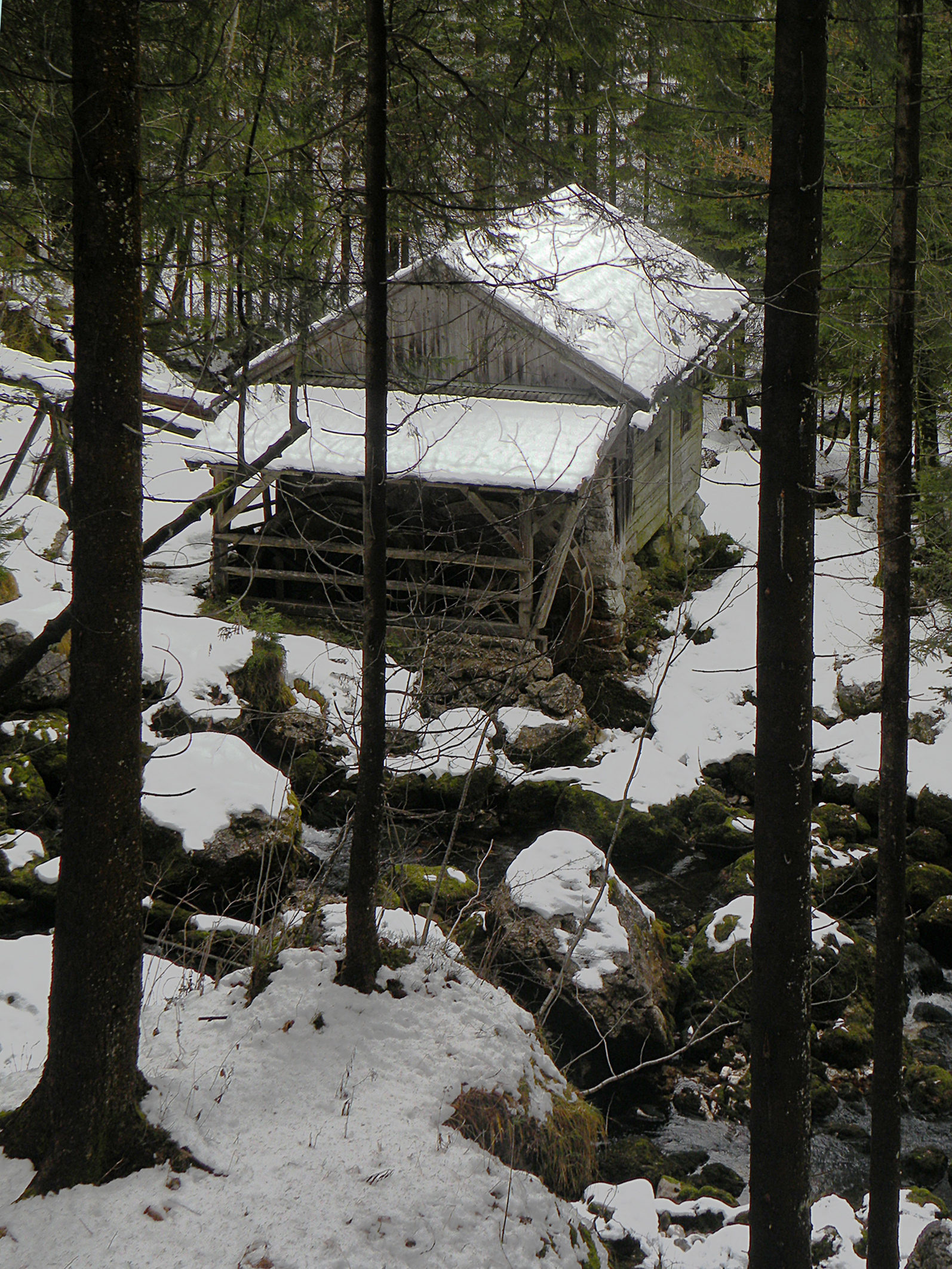 Dublemill (mill with double wheel) on the Schwarzbach near Golling an der Salzach (state of Salzburg)